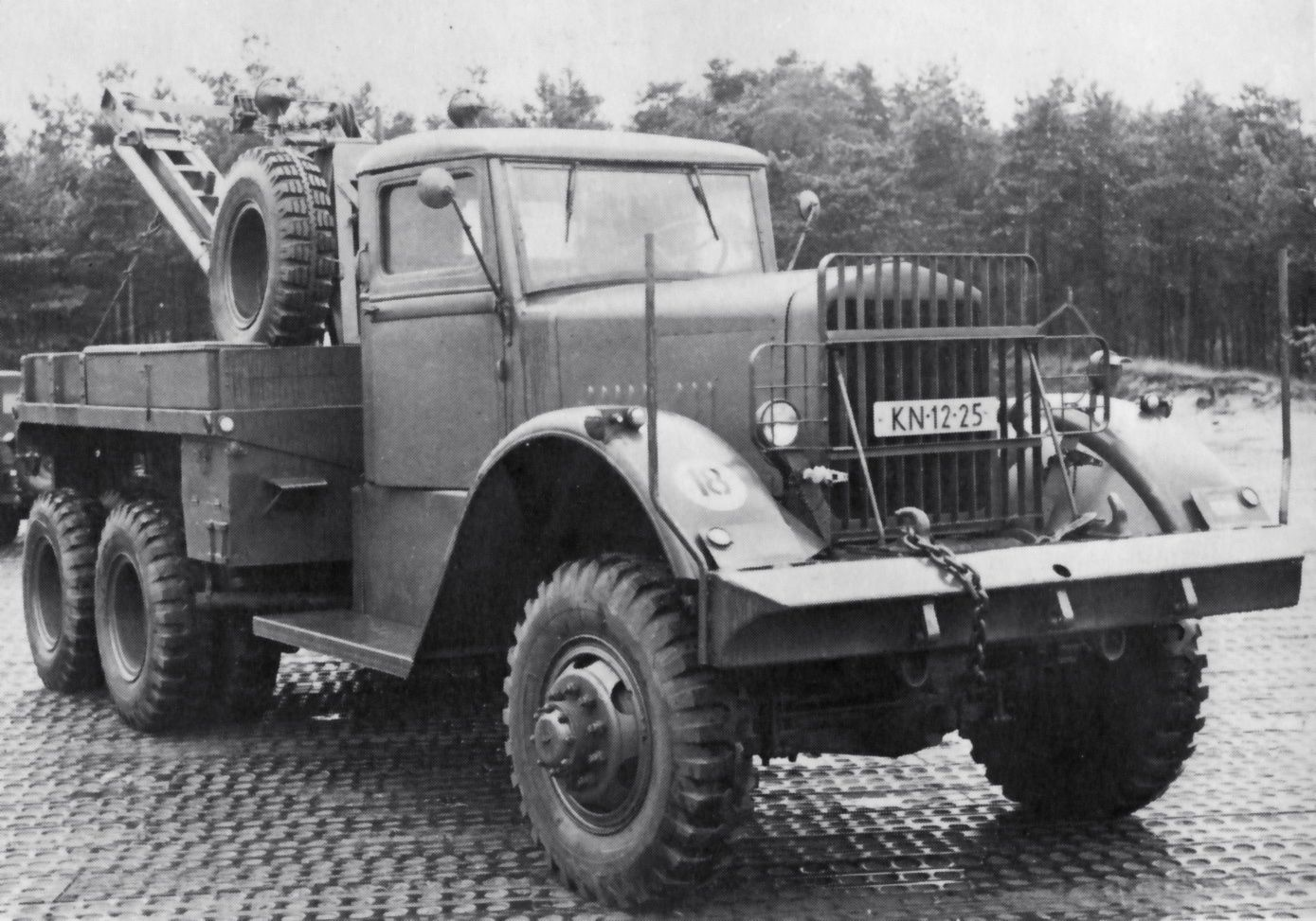 Kenworth M1 (570-series) Heavy Wrecker, 6 ton, 6 X 6 in use by the Royal Dutch Army at Camp Stroe, The Netherlands